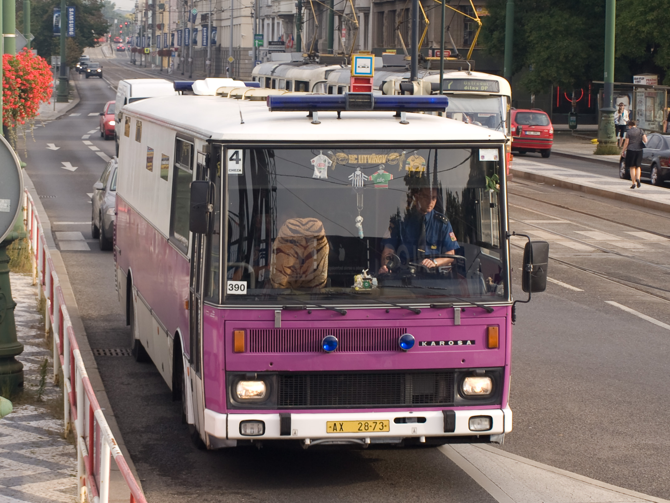 Bus of police escort service, Výtoň, Prague